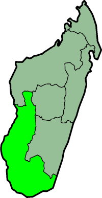 Toliara, province of Madagascar